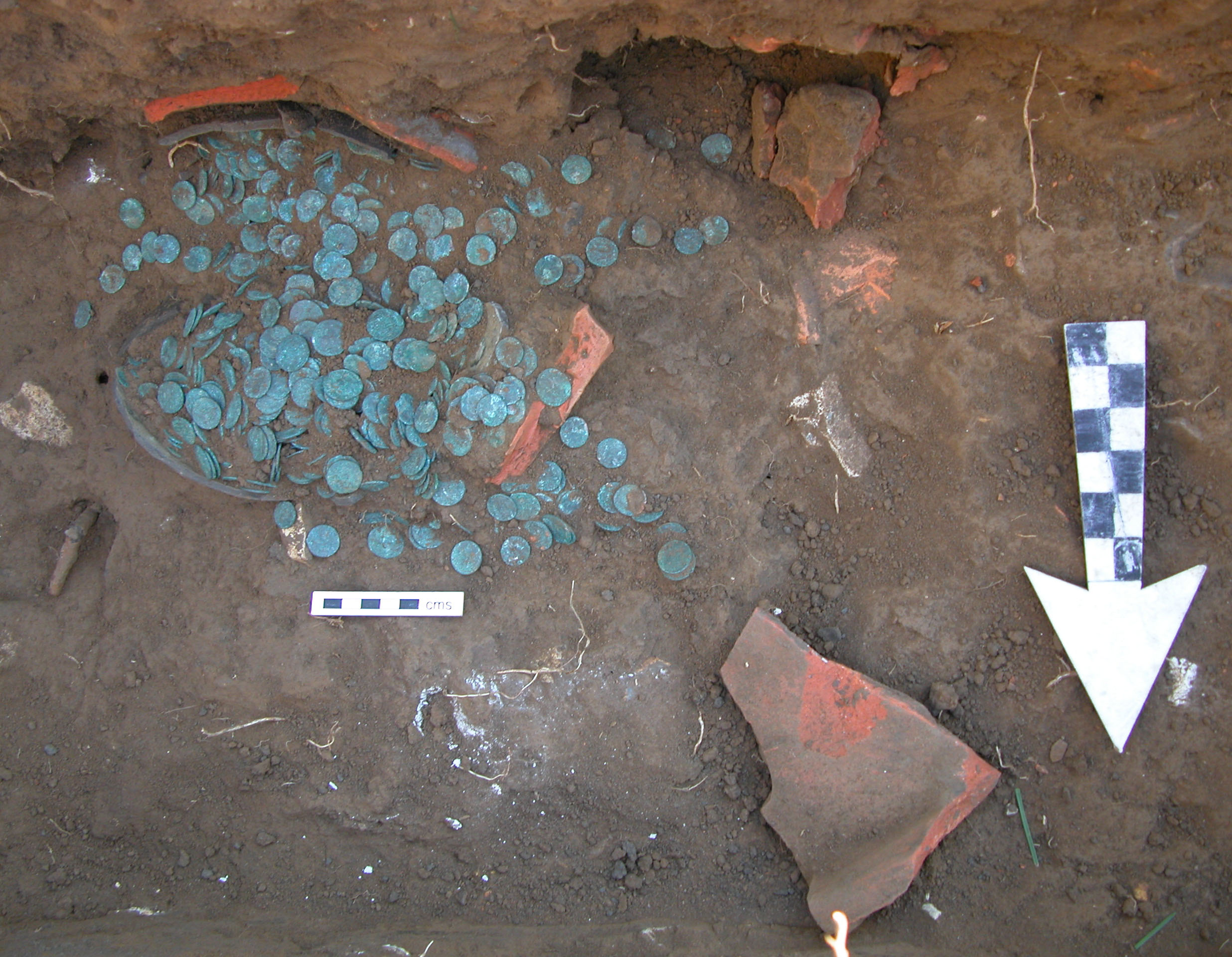 Snodland hoard in situ This was added from the site called under the name portableantiquities. See source for details.